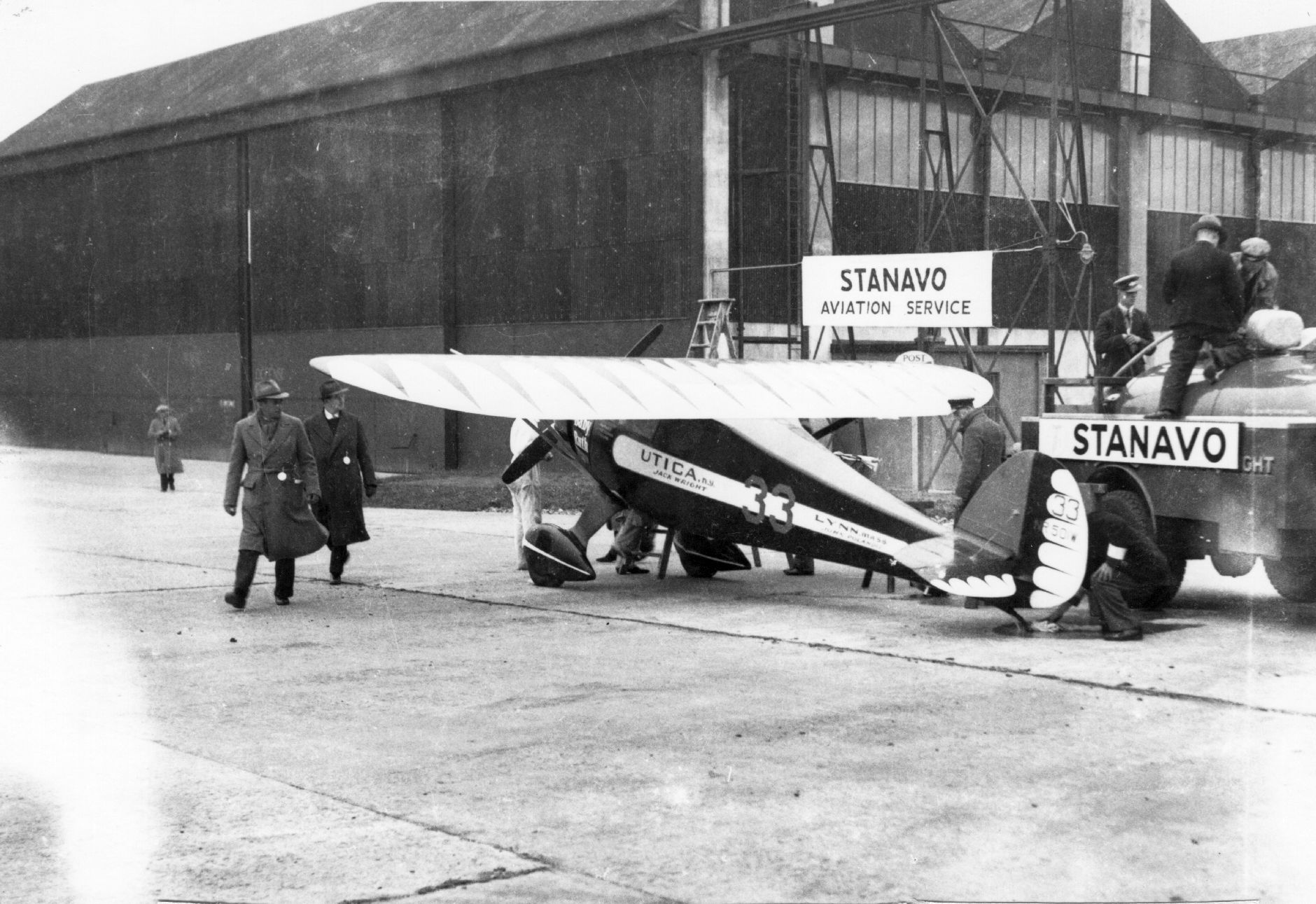 Monocoupe D-145 being prepared for the MacRobertson Air Race.